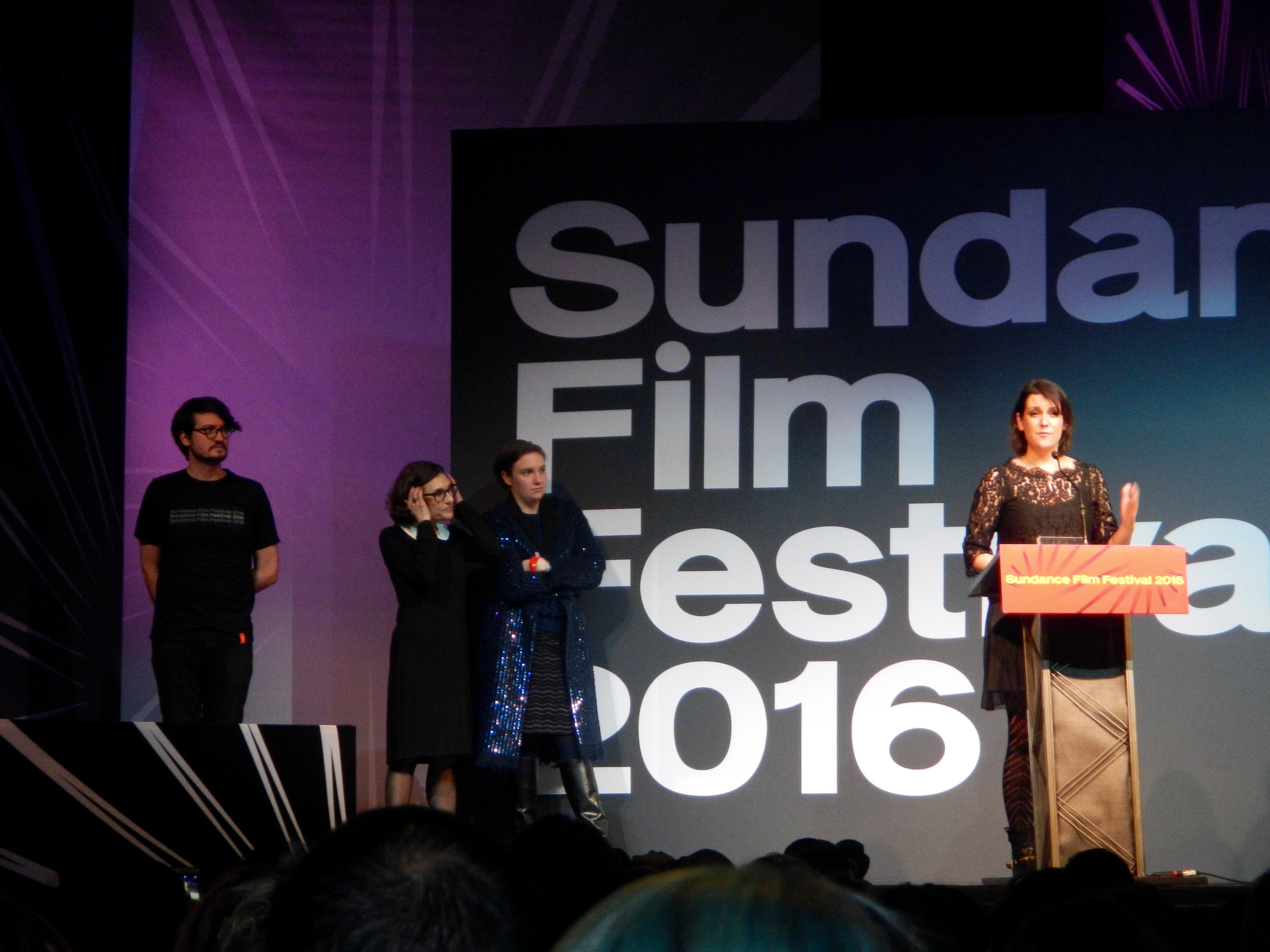 Accepting Jury Performance Award, 2016 Sundance Film Festival Awards, Park City UT